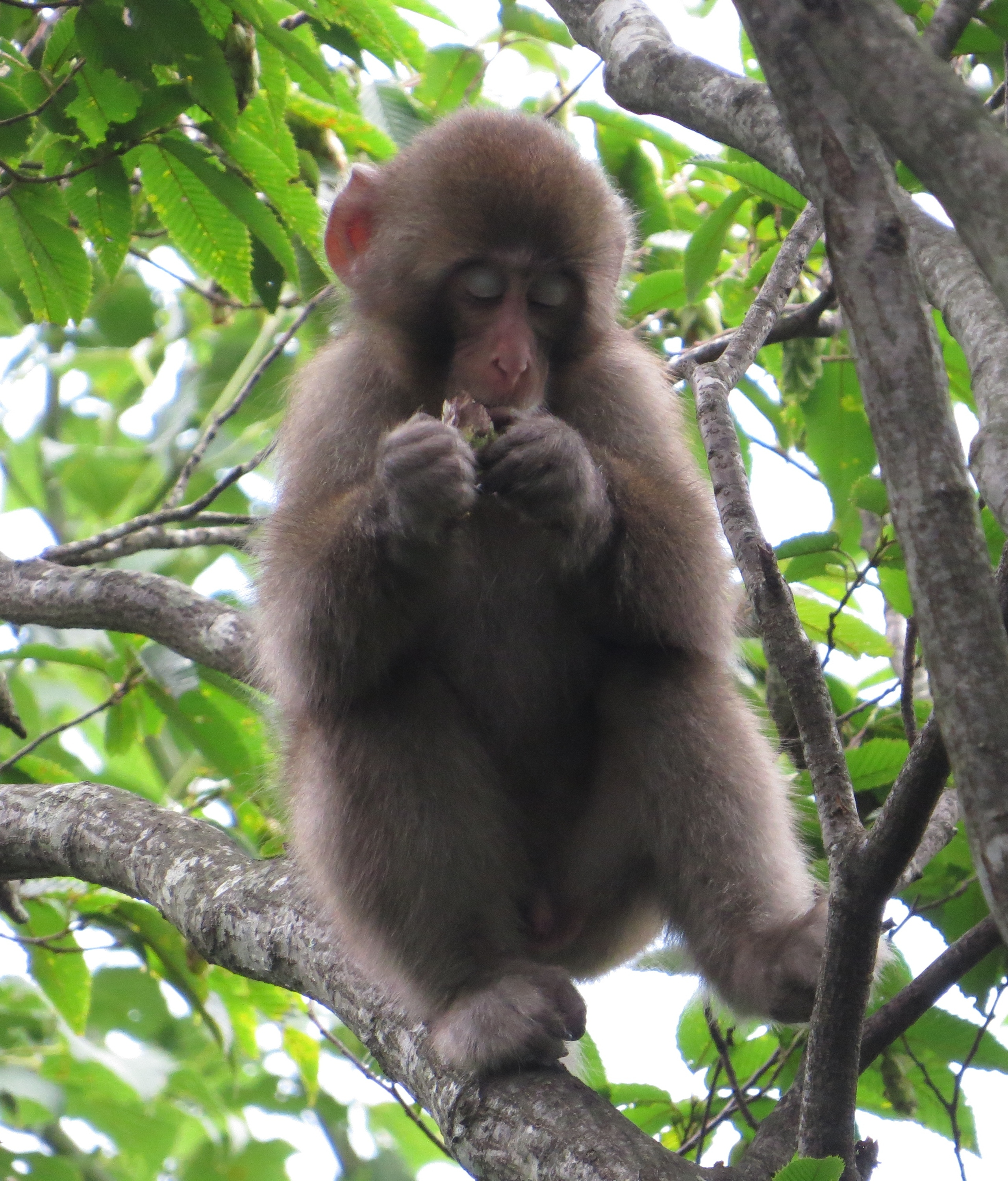 Japanese macaque (Castanea crenata Siebold et Zucc.) eating fruits, in Mount Yōrō, Yōrō, Gifu prefecture, Japan.